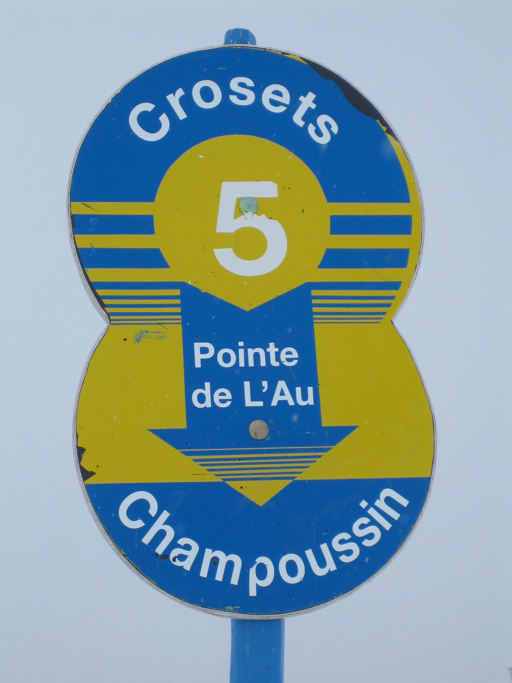 A Blue Ski Arena road sign at Les Crosets, France. It is my own work.